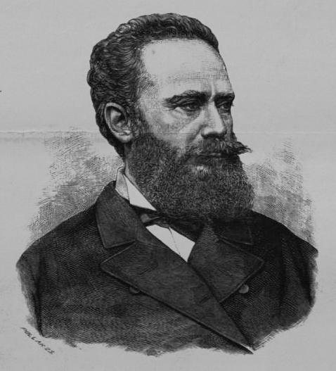 Portrait of Kálmán Balogh (physician)